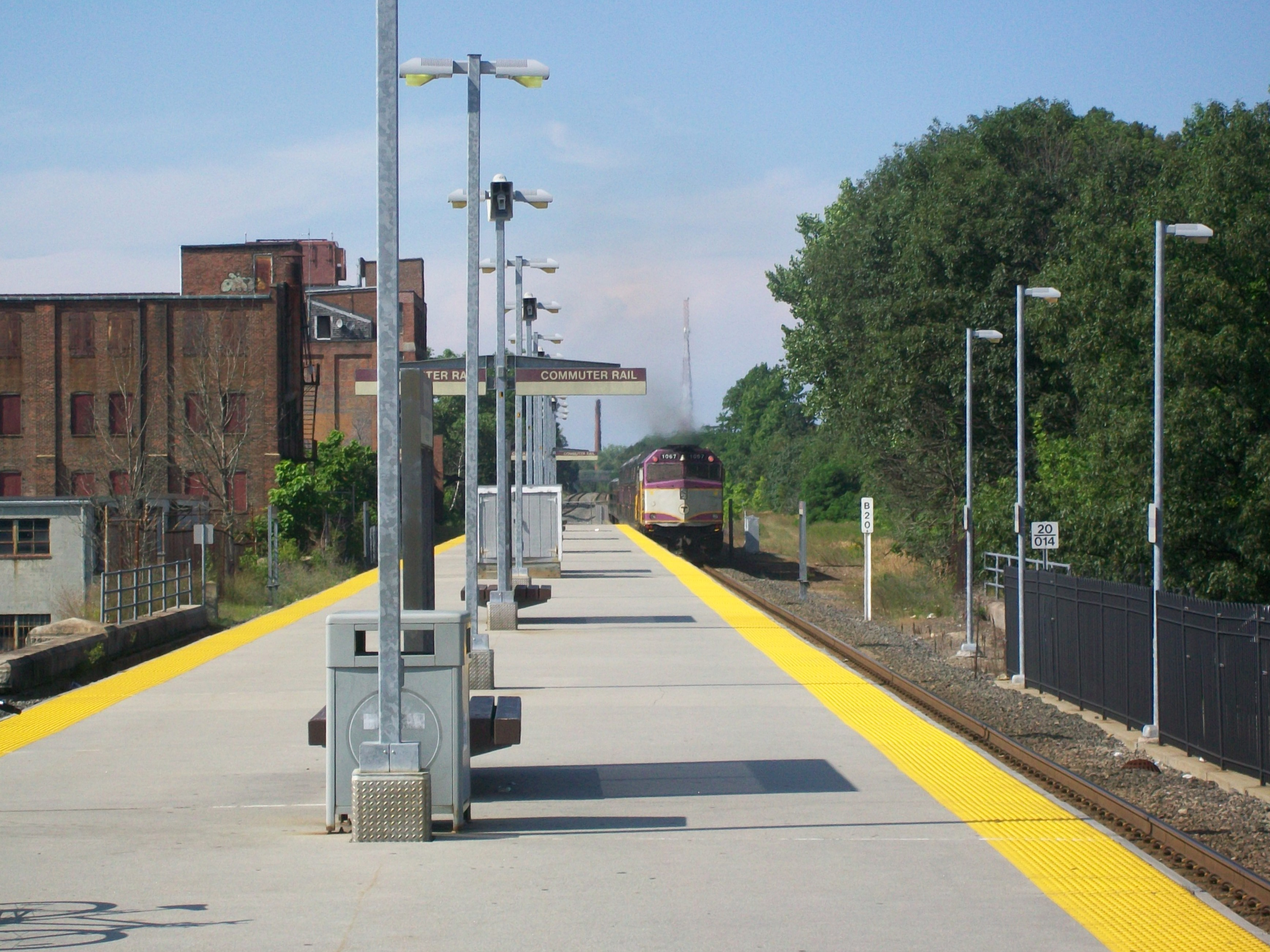 An inbound train leaves Brockton station